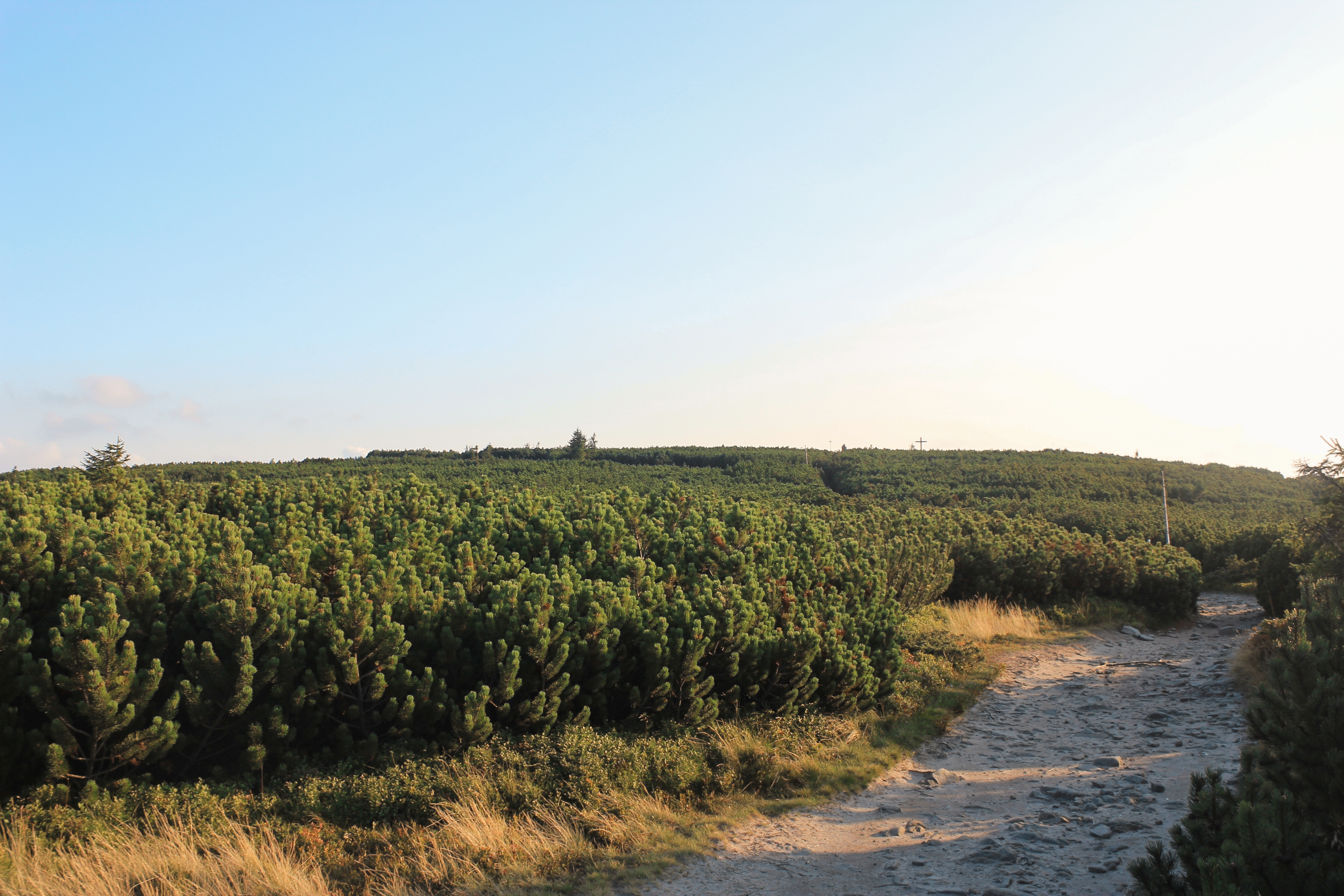 Beskid Żywiecki - the path between mounts Góra Pięciu Kopców and Pilsko